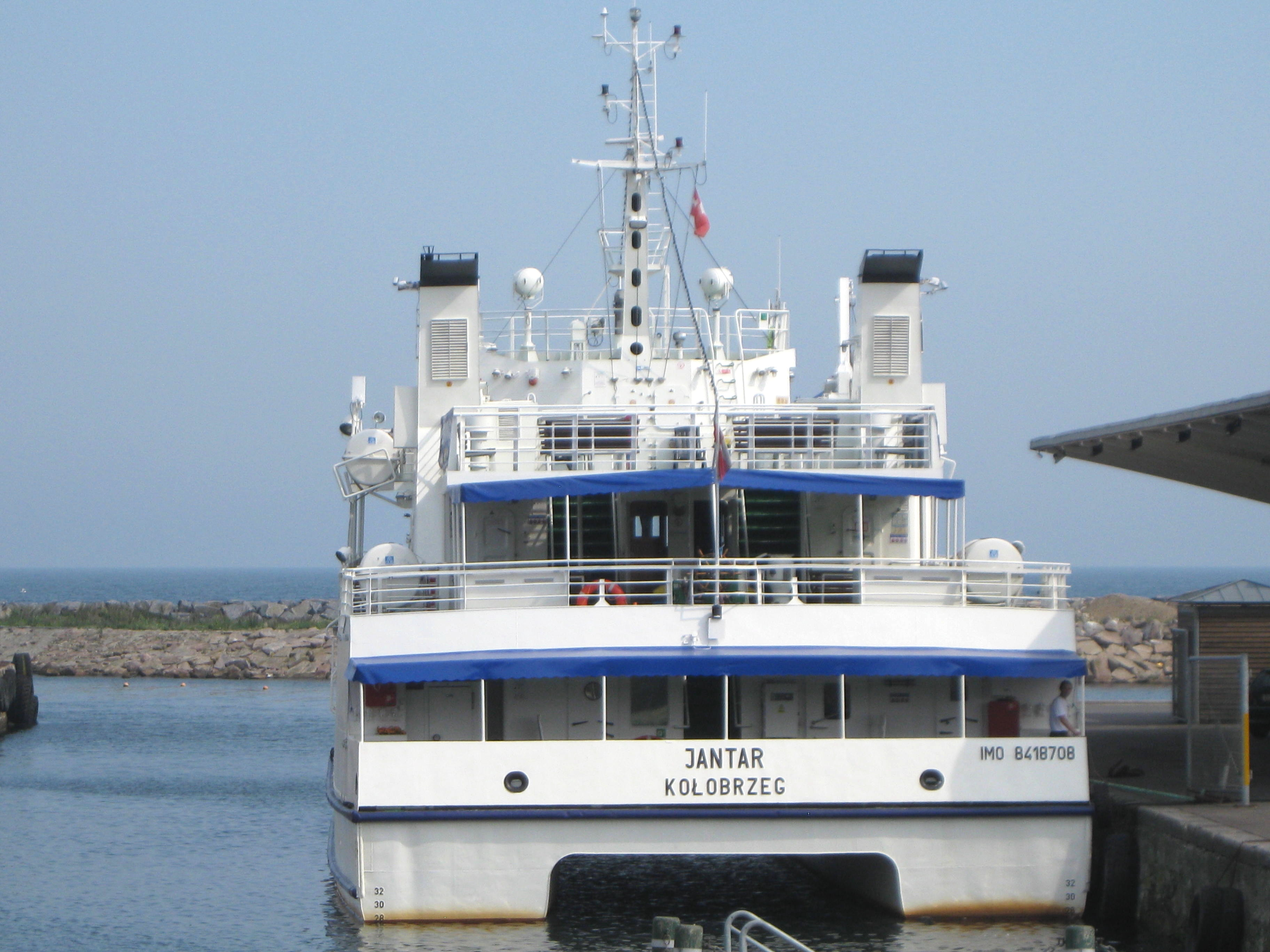 Ferry (Bornholm-Poland) in the habour of the small town "Nexø". The town is located on the island Bornholm in east Denmark.